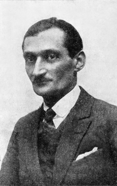 Bruno Winawer (1883-1944) was a Polish comedy and prose writer, a journalist and physicist.